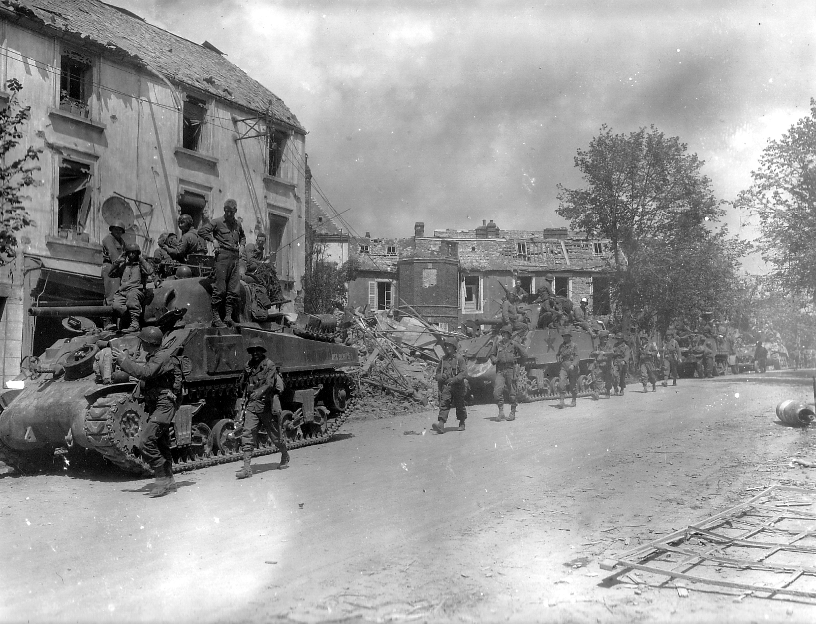 Original caption: American armored and infantry forces pass through the battered town of Coutances, France, in the new offensive against the Nazis. Signal Corps Photo ETO-HQ-44-9257